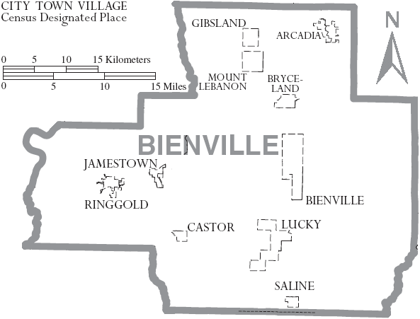 Map of Bienville Parish, Louisiana, United States with municipal boundaries